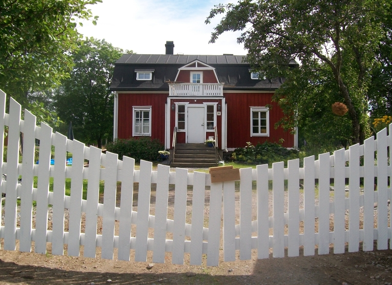 Old house in Pyhäjärvi, Finland